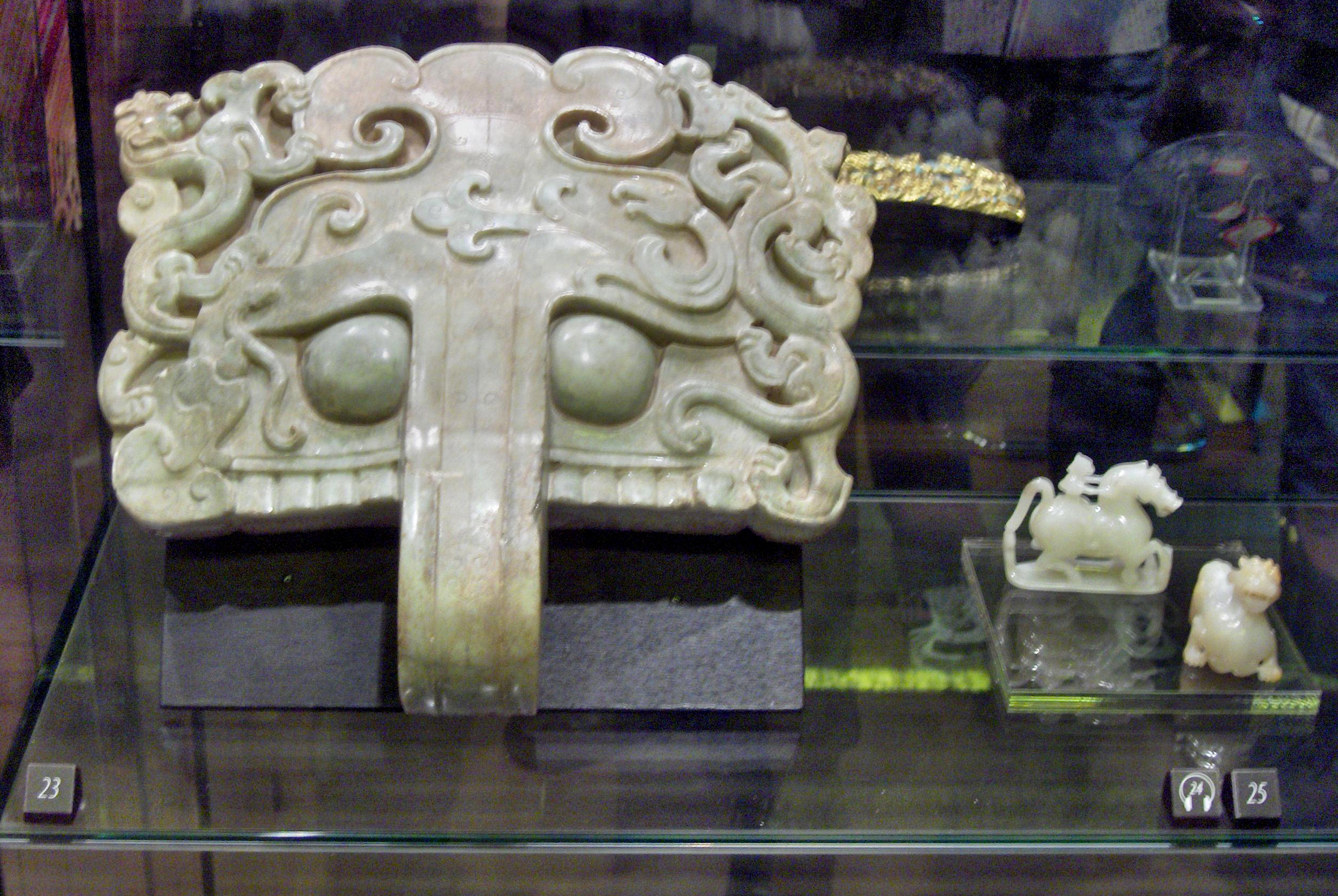 Jade door knocker, Xinping (left); jade horse and rider (Zhouling) and winged jade lion (Xinzhuang); Western Han dynasty